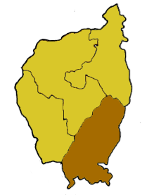 Diocese of Ferns in the Catholic Province of Dublin. This is a current map of the ecclesiastical province in the Catholic Church. The crosses mark where the current Cathedrals of each diocese is located. The specific dioceses are in different colours.